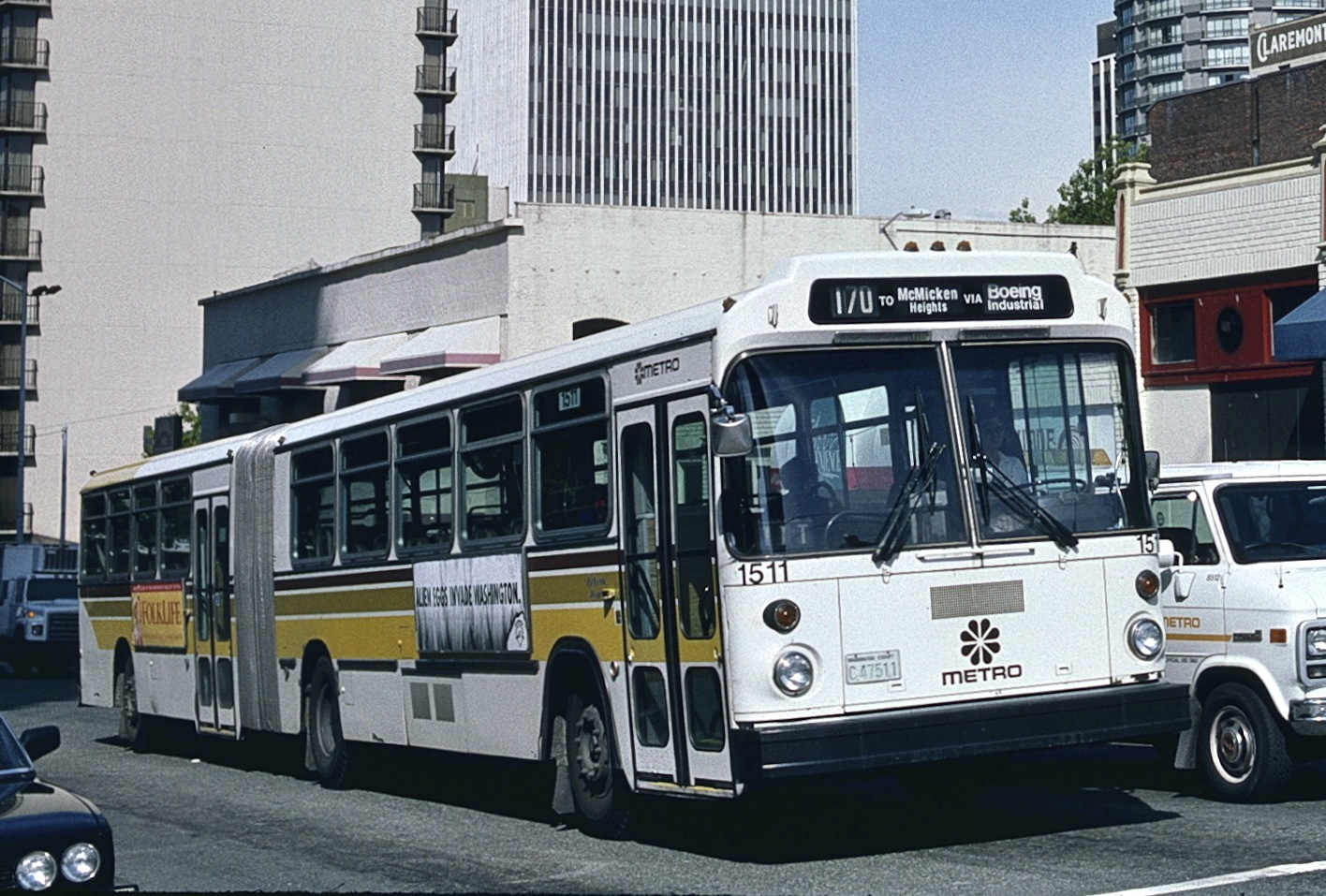 Metro Transit (Seattle) M.A.N. articulated bus 1511 in downtown Seattle in 1994, on Lenora Street at 3rd Avenue, in service on former route 170 to McMicken Heights via the Boeing Industrial area. Bus 1511 is a model SG220-18-2, built in 1979.